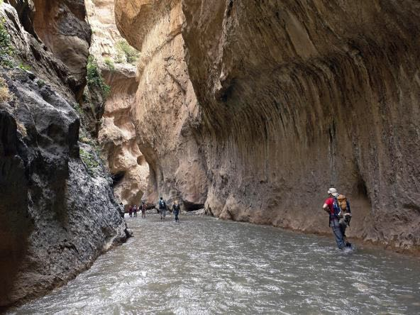 Our last trekking in Mgoun Valley. Excellent Canyon for the hike